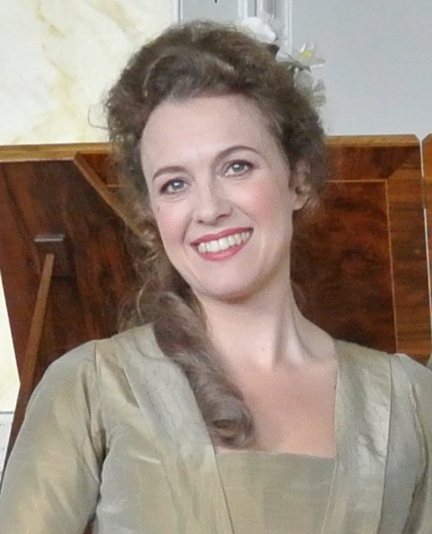 Tove Dahlberg at the Drottniholm Court Theatre